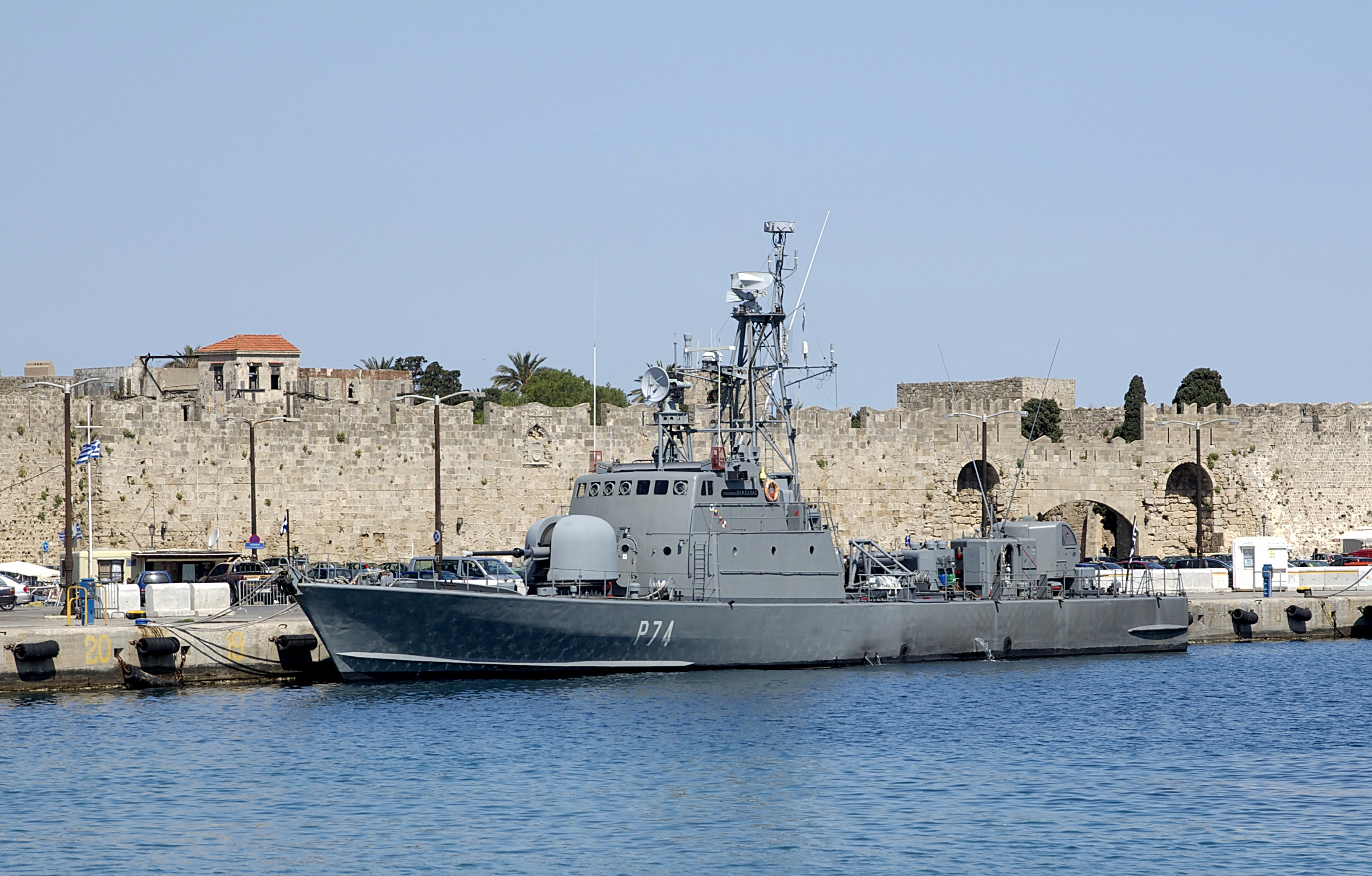 Plotarhis Vlakavas P 74 (ex-Marder), a La Combattante IIa-class FACM Guided-Missile Patrol Craft (PTG) of the Hellenic Navy, harbour of Rhodes, island of Rhodes, Greece.